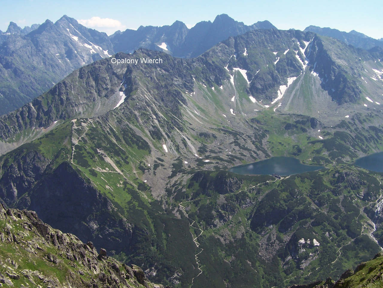 Opalony Wierch (Tatra Mountais)